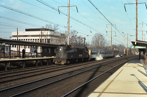 An Amtrak GG1 at Metropark station in January 1976